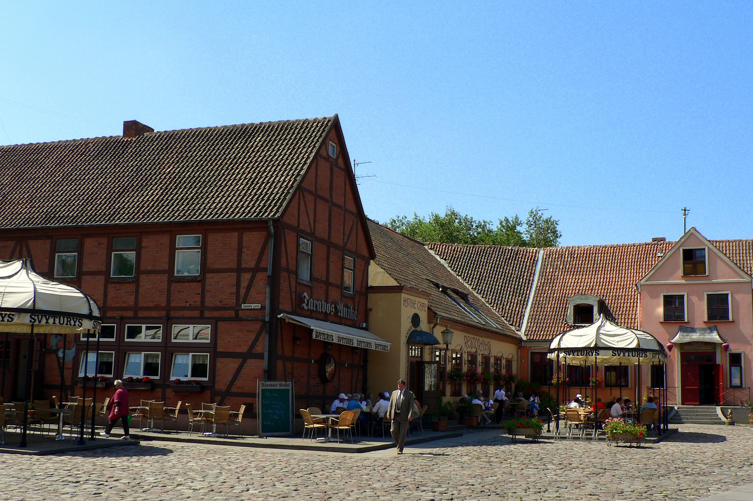 Klaipėda, Lithuania.